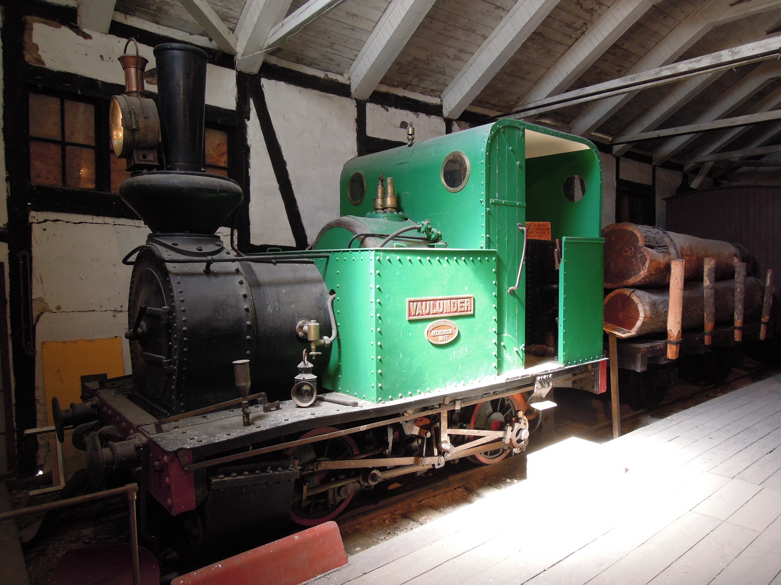 Ironwork museum in Surahammar, Sweden. The steam locomotive Vaulunder and a wood log car in operation 1876 – 1926.